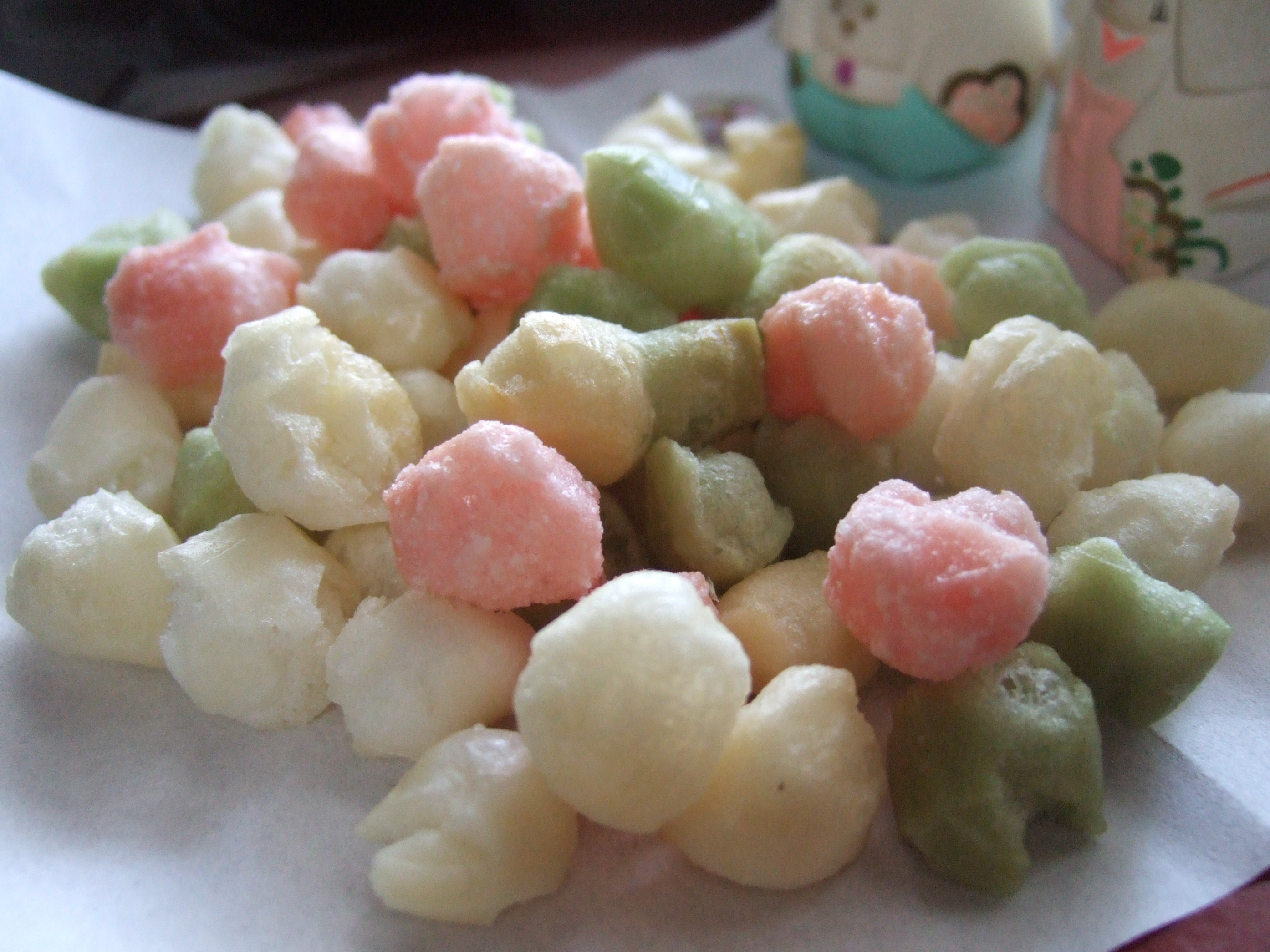 Hina arare for Hinamatsuri in Japan